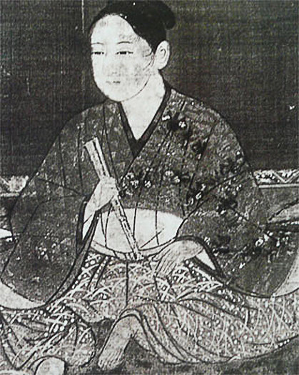 Portrait of Hashiba Hidekatsu (Vertical 2 shaku 1 inch 5 minutes, horizontal 1 shaku 1 1 6 minutes) Shiga Myohoji Temple warehouse.